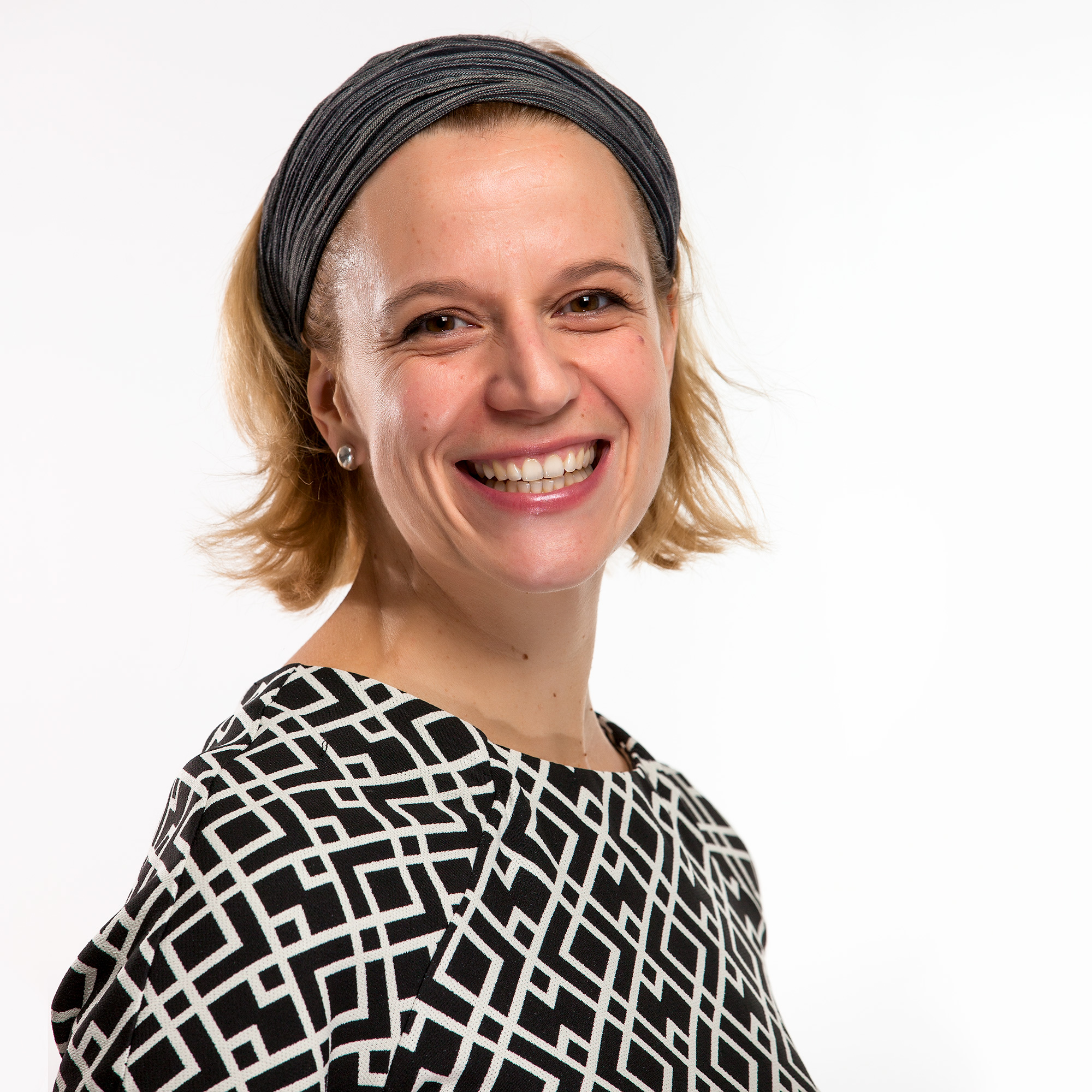 Esther Kaiser, Jazz singer